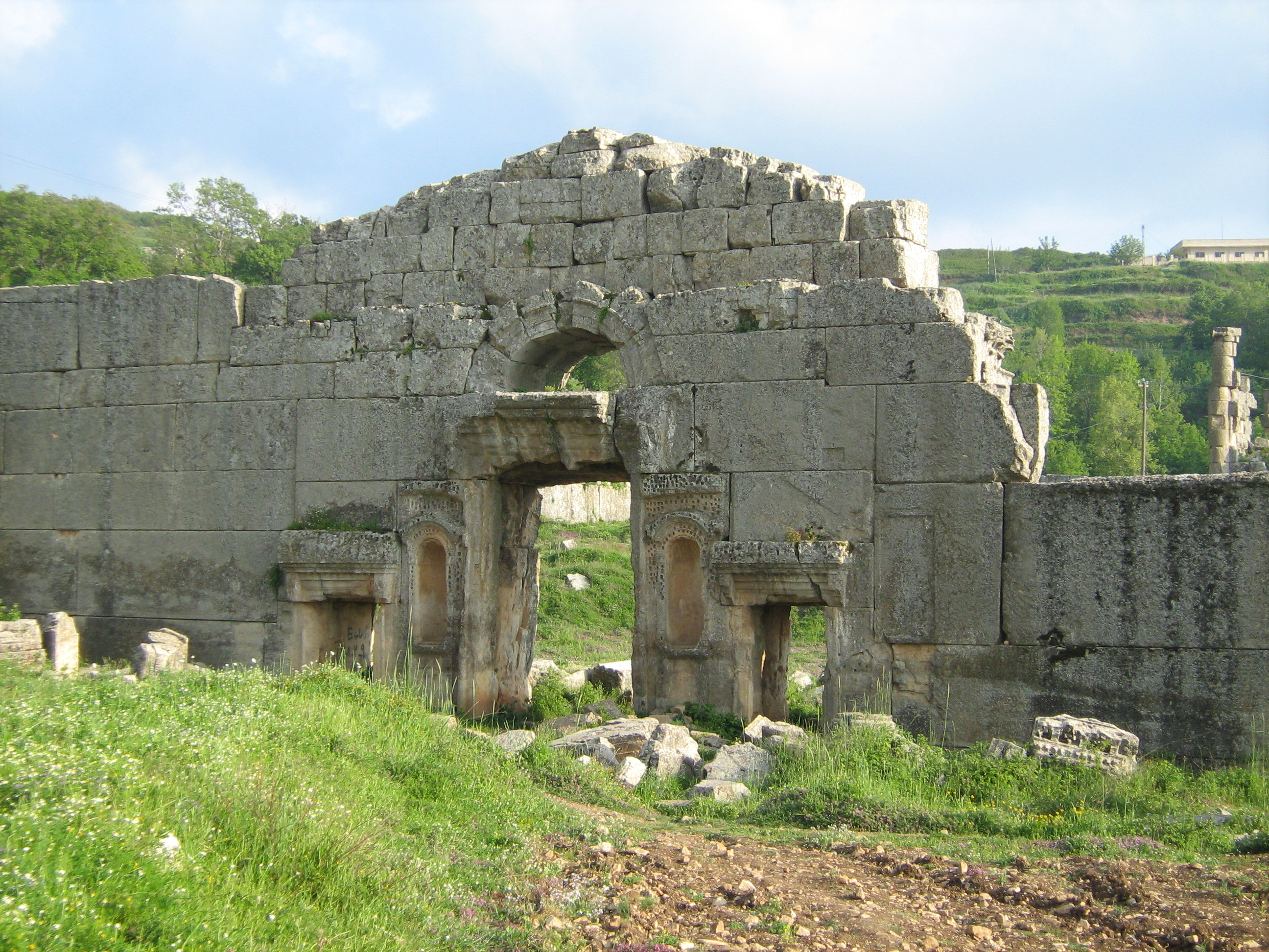 Main (north) gateway of the Roman temple complex of Baotocecea (today Hosn Sulayman in Syria)